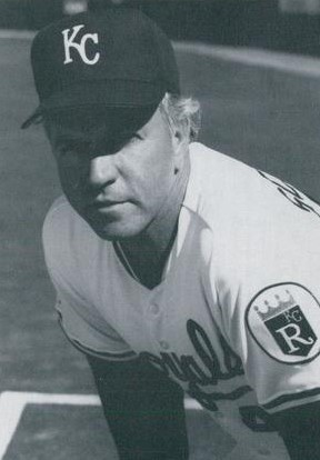 Image cropped from a baseball card of Bob Schaefer from the 1988 Kansas City Royals Photocards set.